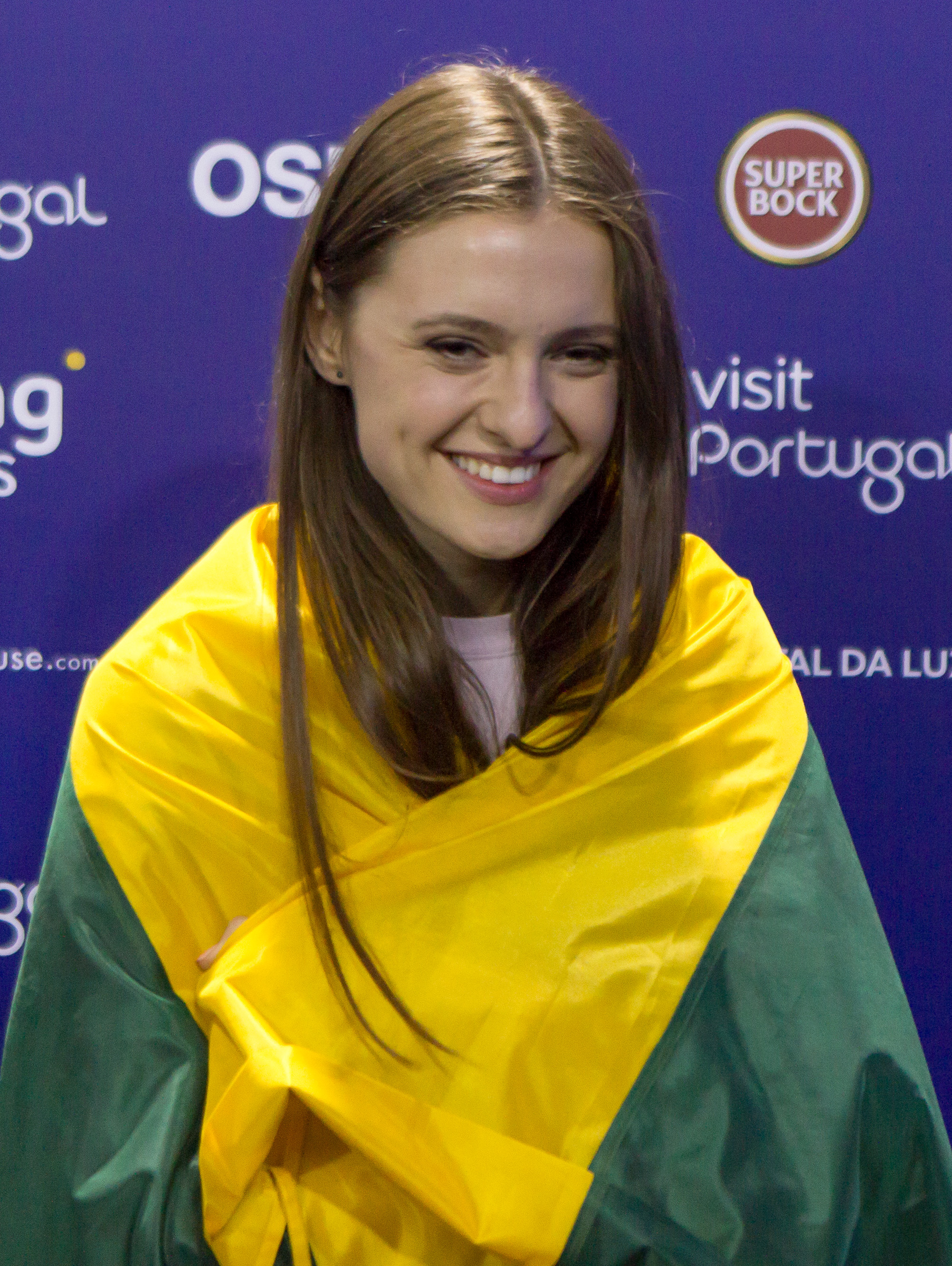 Press conference after the first Semi-Final of the 2018 Eurovision Song Contest